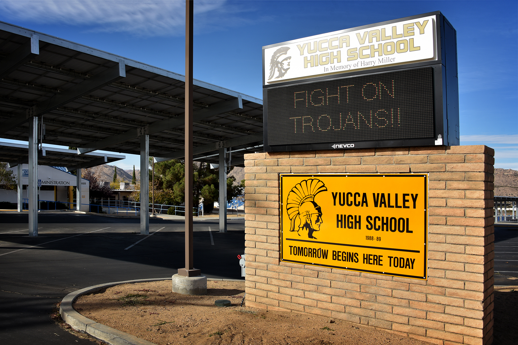 Yucca Valley High School Sign, Yucca Valley California - Photo by Glenn Francis of